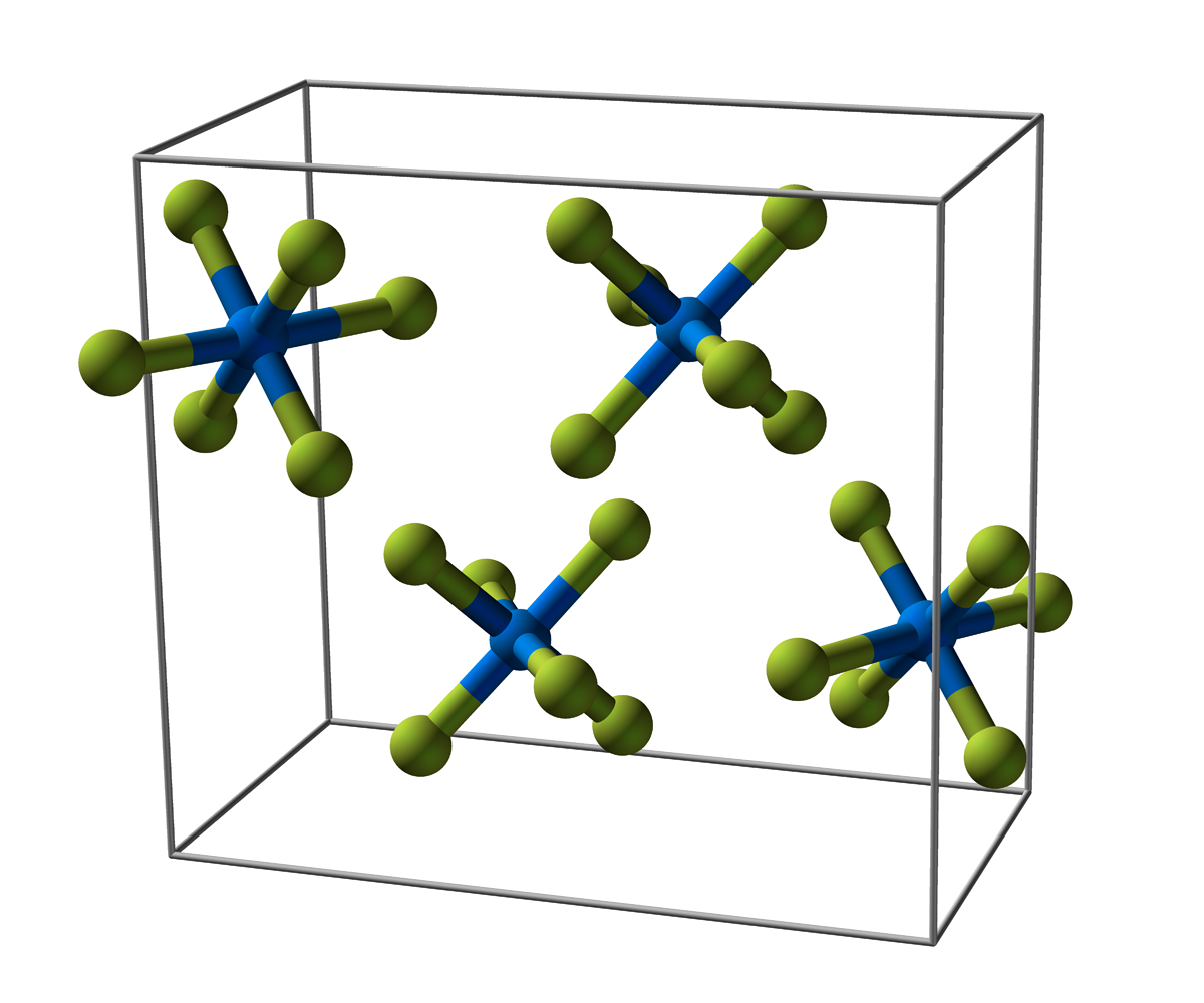 Ball-and-stick model of the unit cell of uranium hexafluoride, UF6. Structural data from Acta Cryst. (1973). B29, 7-12.